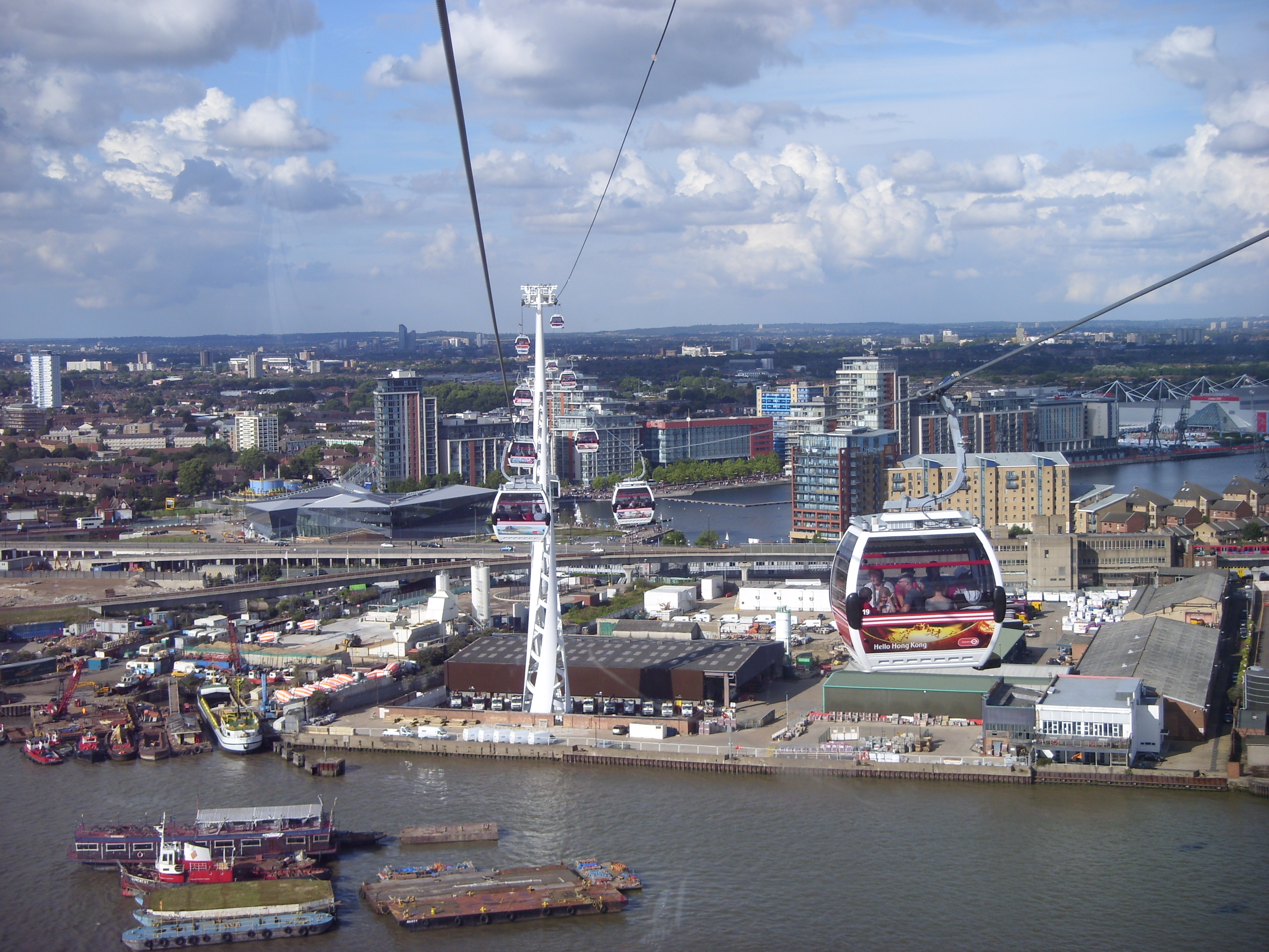 Cable Car over the Thames which links the O2 Arena in North Greenwich with the Excel Centre on the North bank of the Thames.